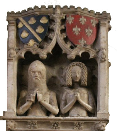 since 1376 Godfrey and de Foljambe, Lord Chief Justice of Ireland, and his wife have appeared to look out of a window at All Saints Church in Derbyshire